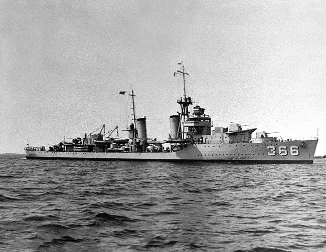 The U.S. Navy destroyer USS Drayton (DD-366) underway at a speed of 8.67 knots (16.06 kph) on 5 August 1936.